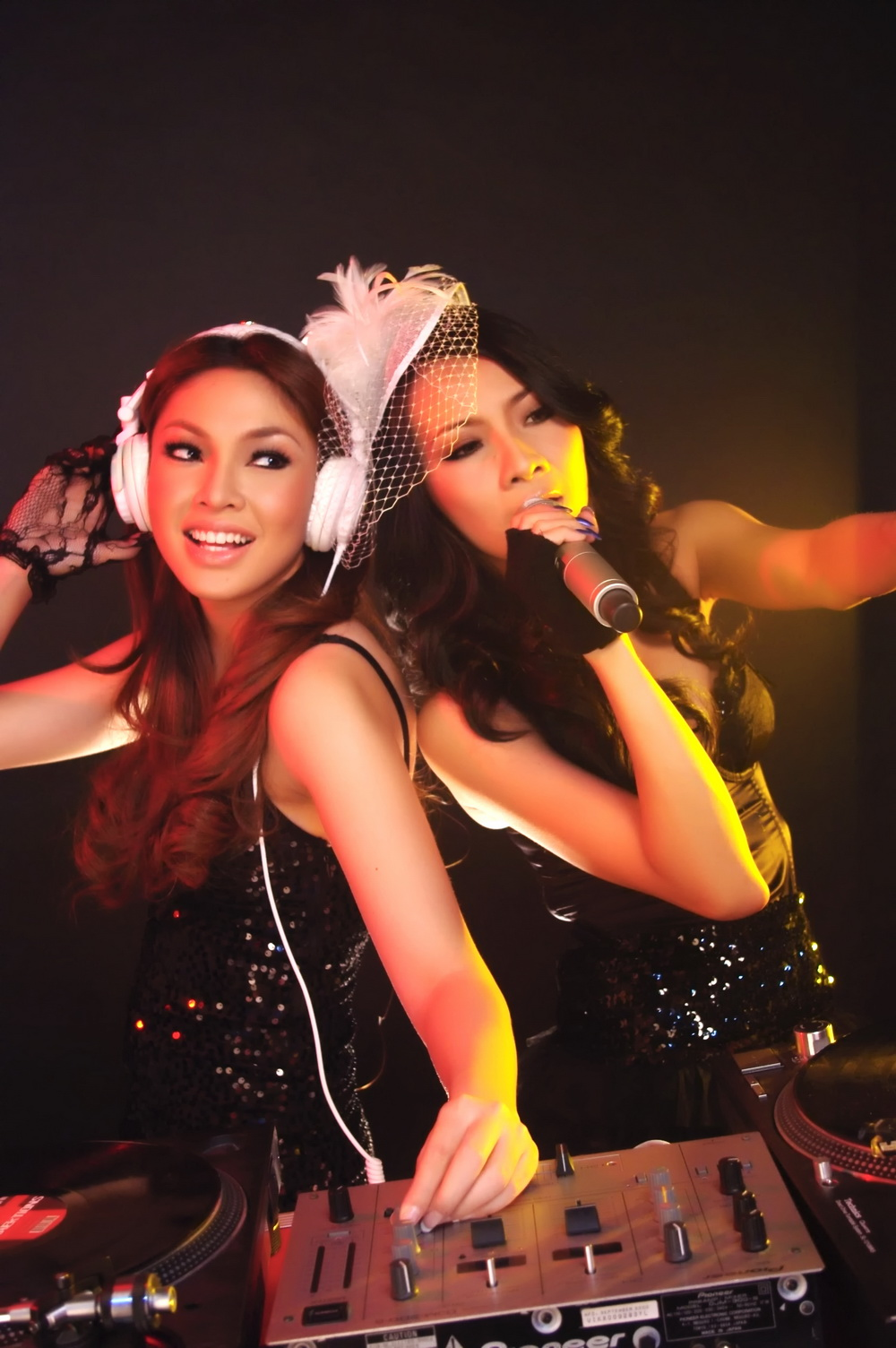 Princess Of Disco Here The Member of music groups Princess of Disco, Meychan Wong and DJ Ayu. Photoshoot was held on 50mm Studio Jakarta